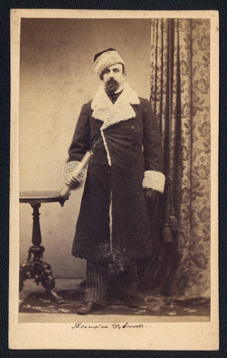 Bronisław Dąbrowski, ok. 1860 r.